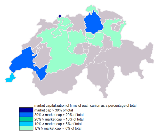 Distribution of market capitalization of firms included in the SMI Expanded index by canton as a percentage of total capitalization of the index